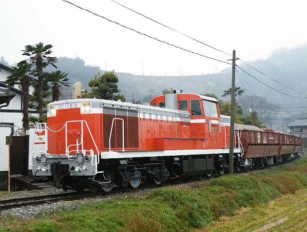 Diesel locomotive type DE10(No.501, ex JNR DE10 148) of SEINO railway, Gifu, Japan.